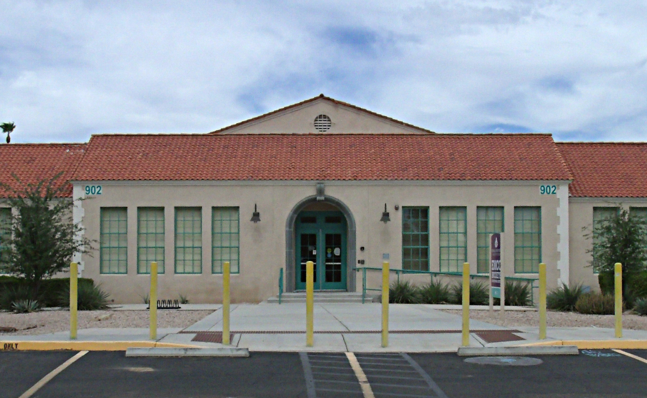 The Buckeye Union High School A-Wing was built in 1925 and is located at 902 E. Eason Ave. Buckeye, Arizona. The school A- wing was listed in the National Register of Historic Places in December 30, 2009, reference #09001160.